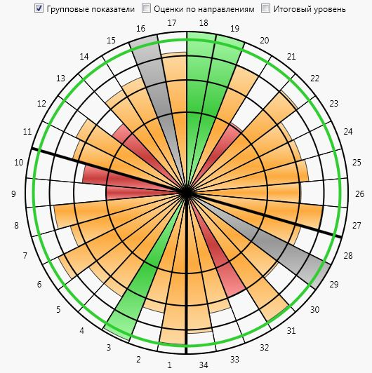 Compliance diagramm of the Russian Bank Information Security Standart STO BR IBBS